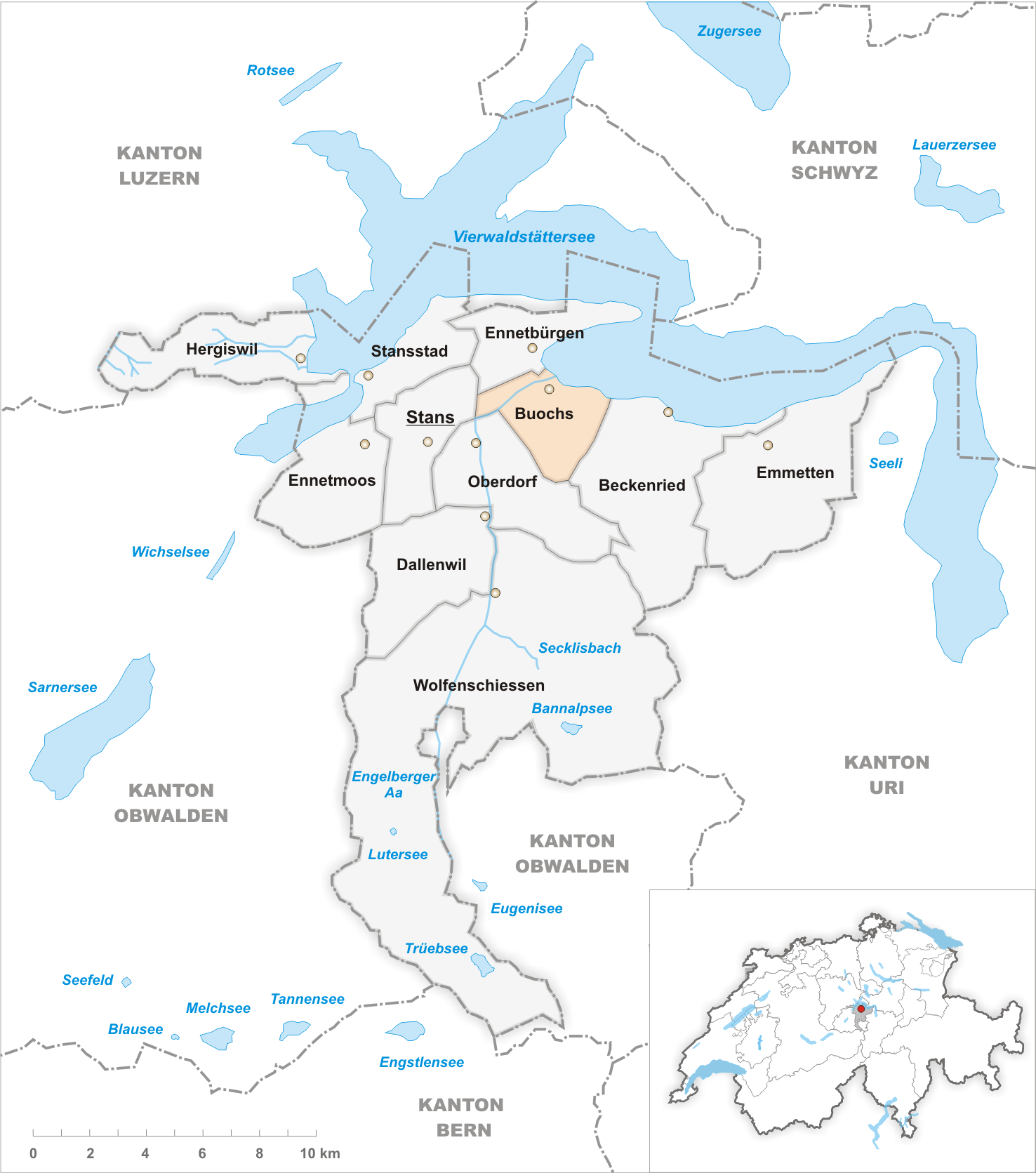 Municipality Buochs